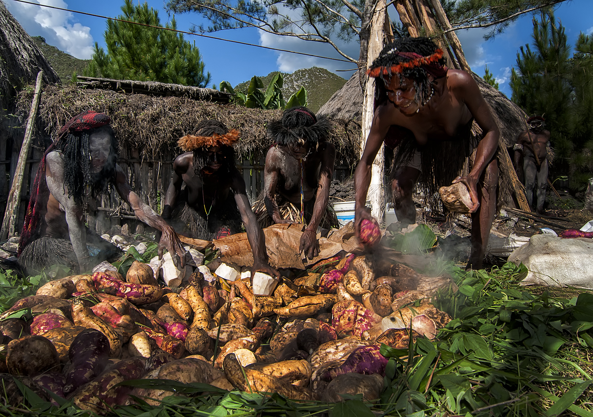 Papuan tribesmen during stone-burning ceremony. This ceremony is held as a moment of celebration. This tradition could be found in the Highlands of the Province of Papua.